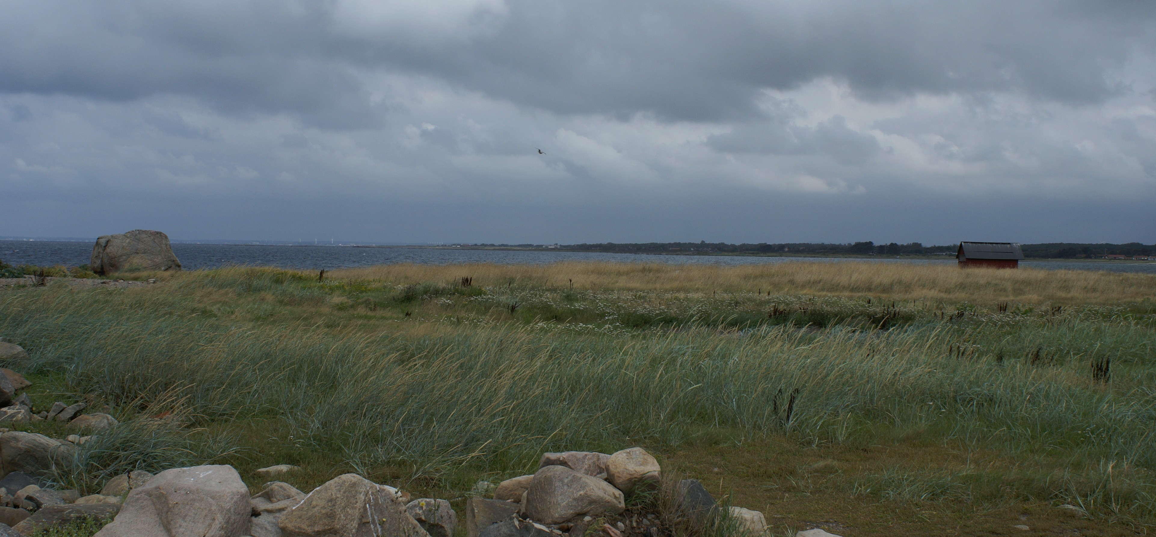 The famous "Glumstenen" surrounded by the sea and original nature